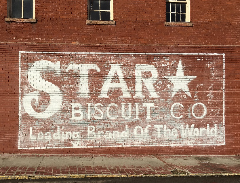 Stone Mountain, Georgia. Manor Drive at Main Street. Ghost sign of fictional company left from a film production.